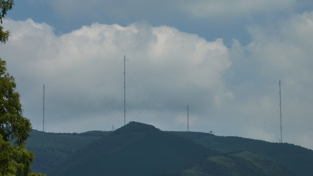 JMSDF Ebino VLF transmitter (Miyazaki Prefecture, Japan)